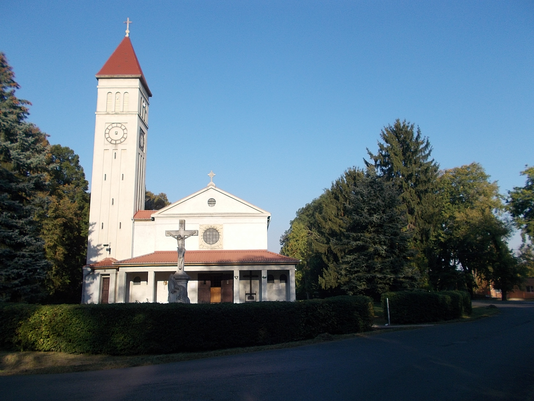 Our Lady Church (by Gáspár Fábián, 1934) - Petőfi square, Fő street, Újdombóvár neighborhood, Dombóvár, Tolna County, Hungary.